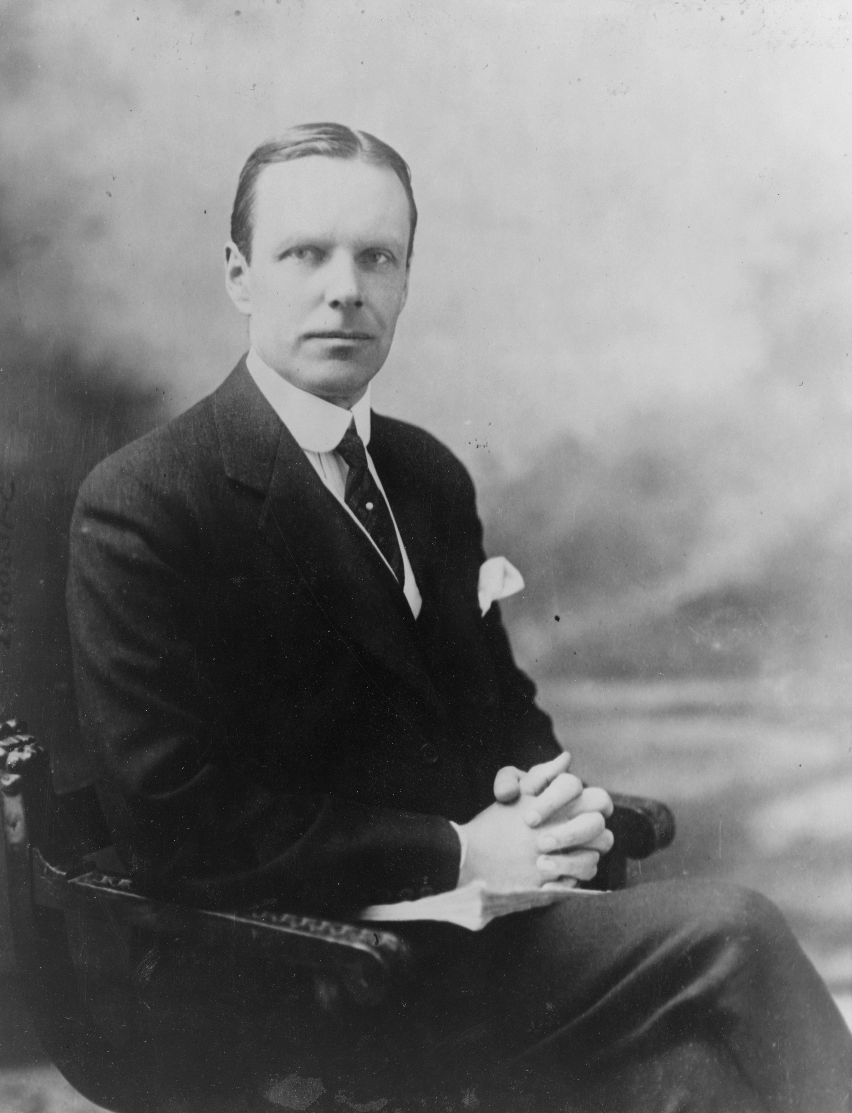 Latest photo, just received from Holland, of W. Phillips, American Minister to Holland.